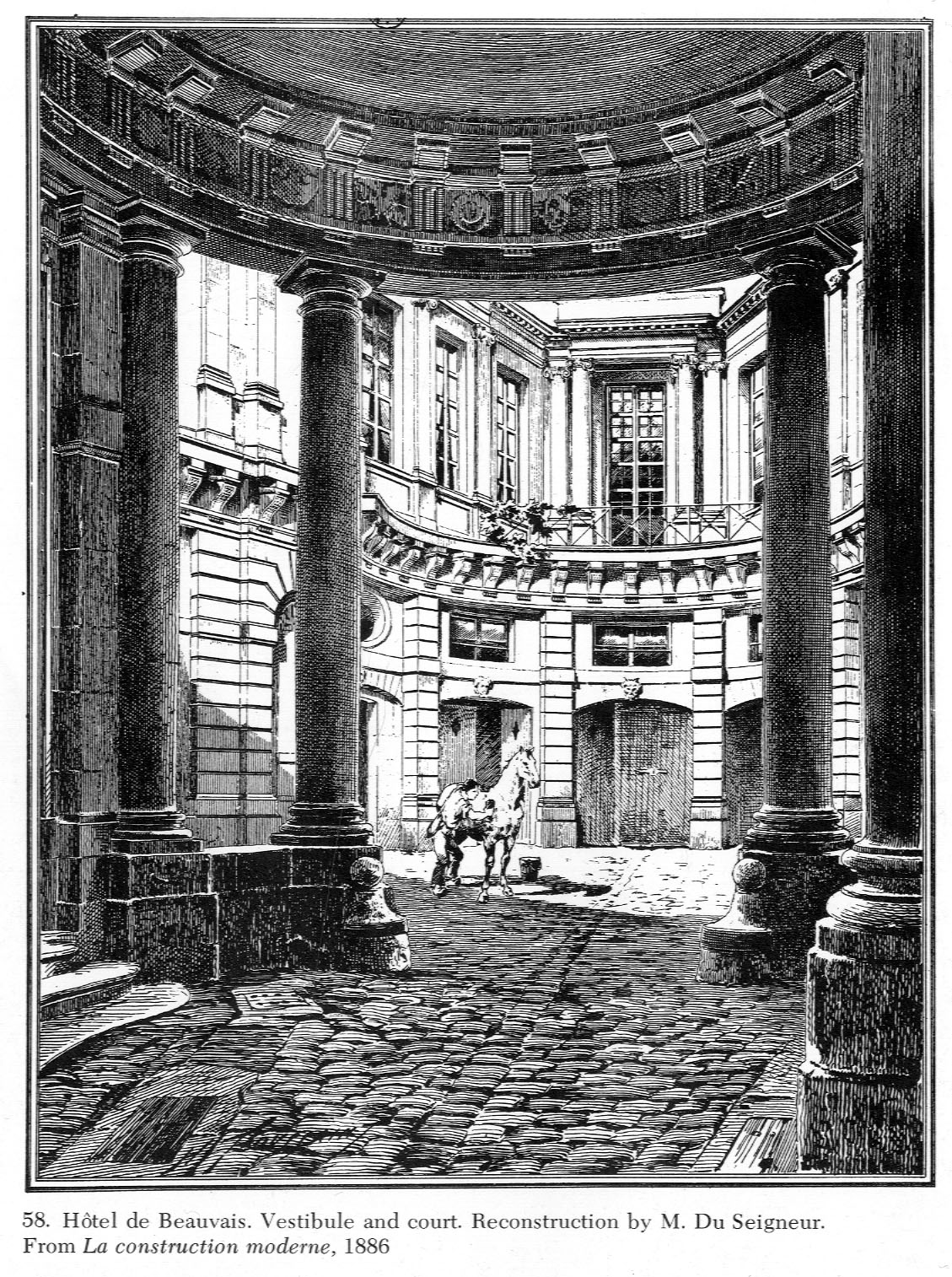 View from the vestibule into cour d’honneur.